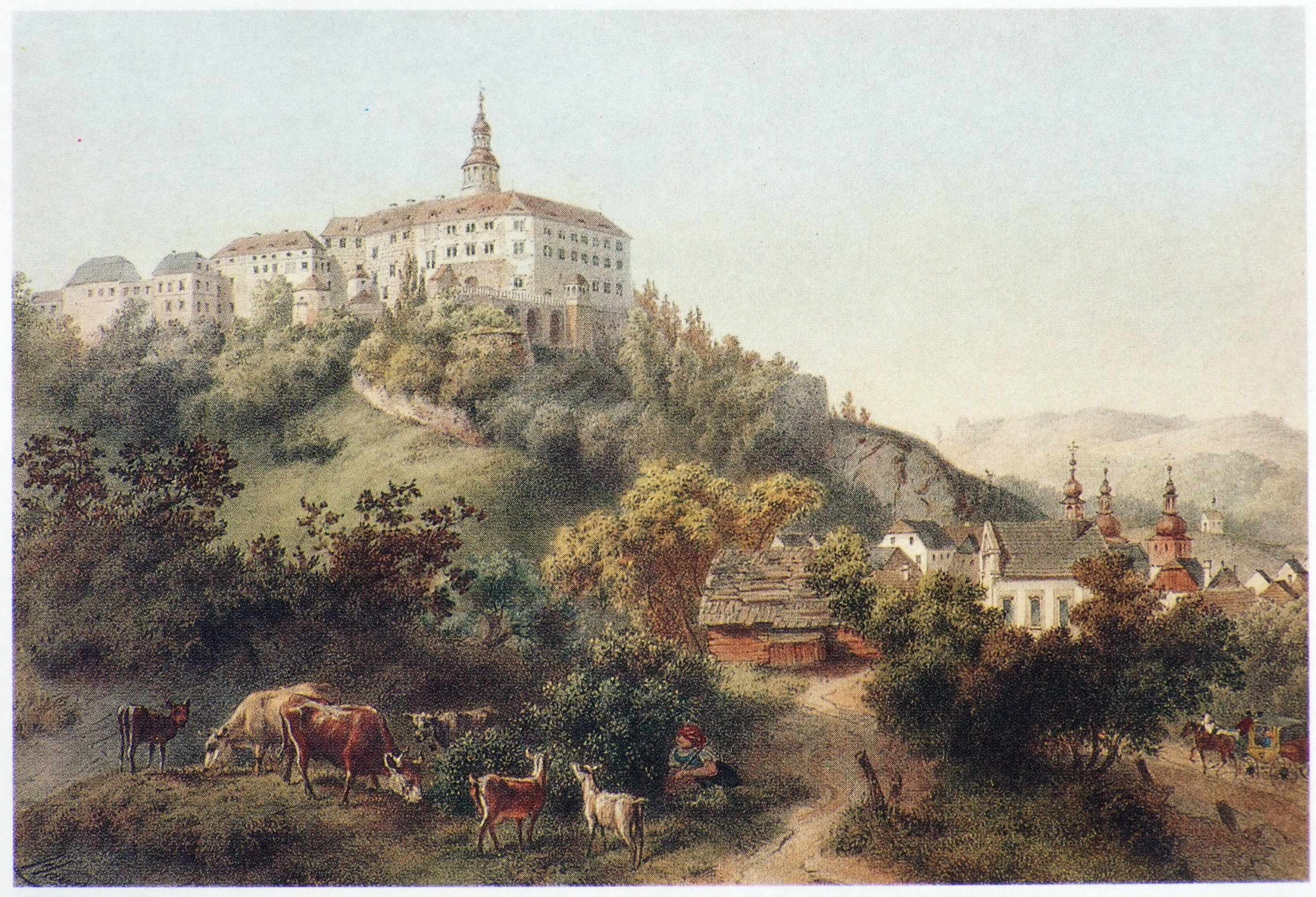 Náchod from the west